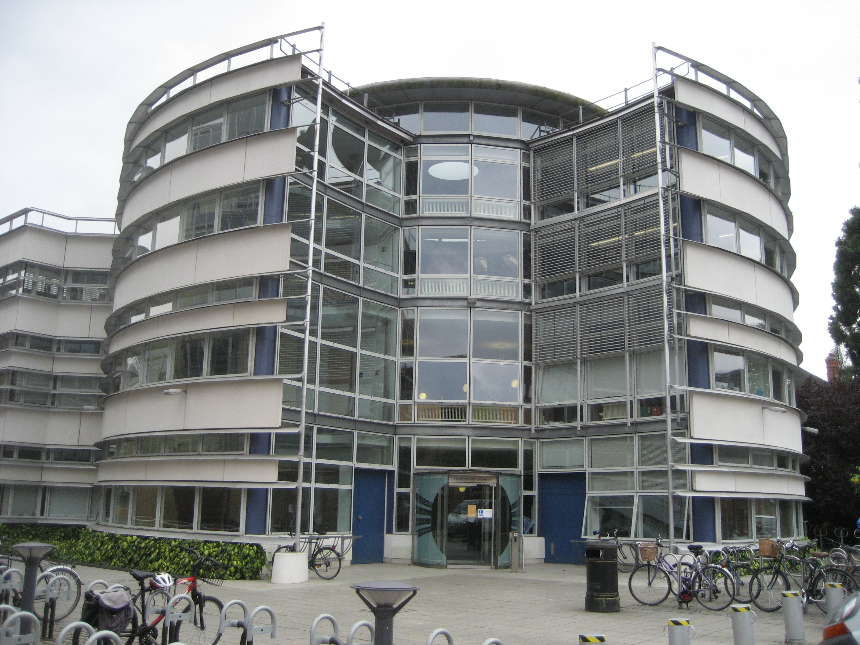 Divinity Faculty, Sidgwick Site, West Road, University of Cambridge, England (UK). Edward Cullinan Architects